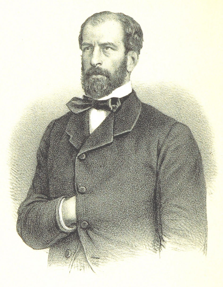 Former President of Chile Federico Errázuriz (1872).